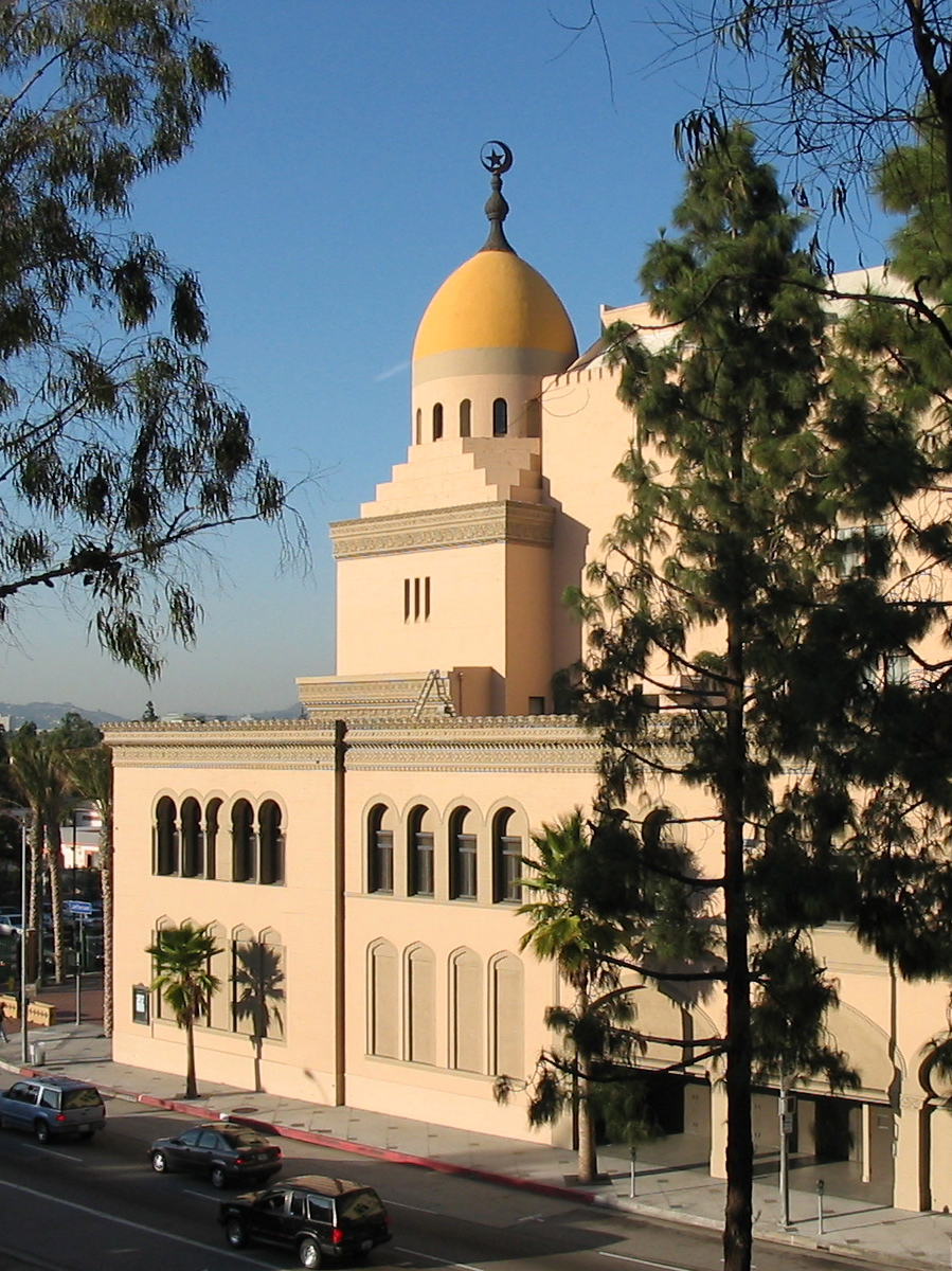 Al Malaikah Temple - Shrine Auditorium, 655 W. Jefferson Blvd. University Park